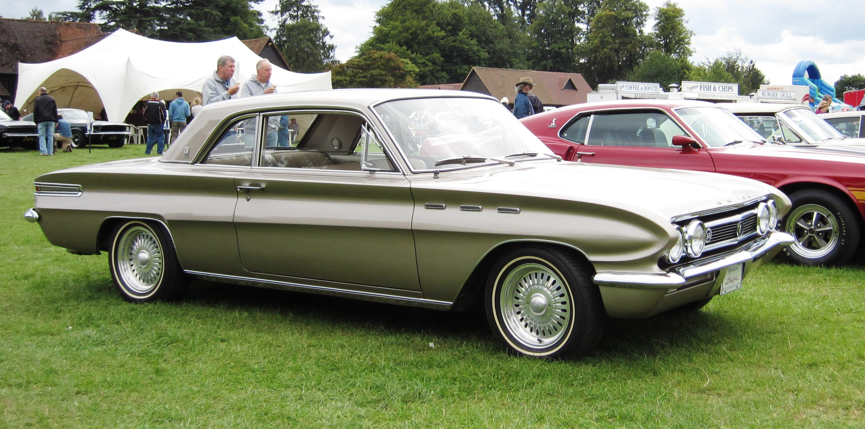 Buick Skylark at classic car show in Knebworth